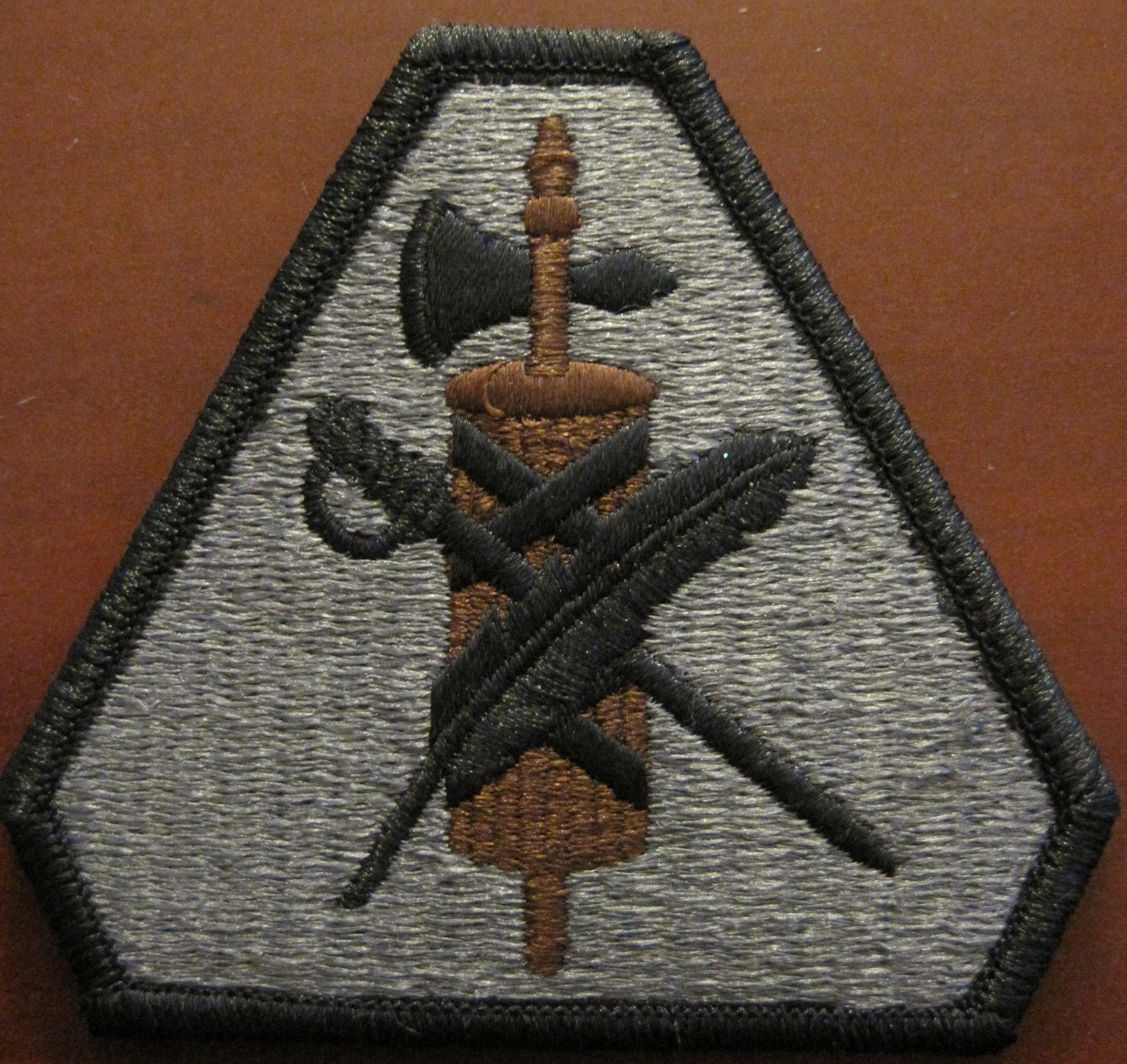 Unit Patch for United States Army Reserve Legal Command